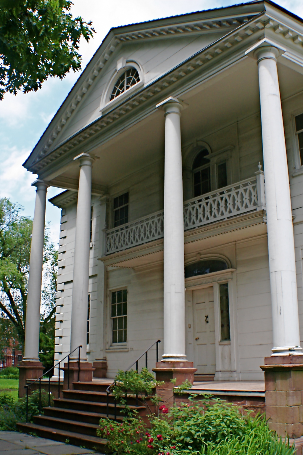 Front Entry of the Morris-Jumel Mansion